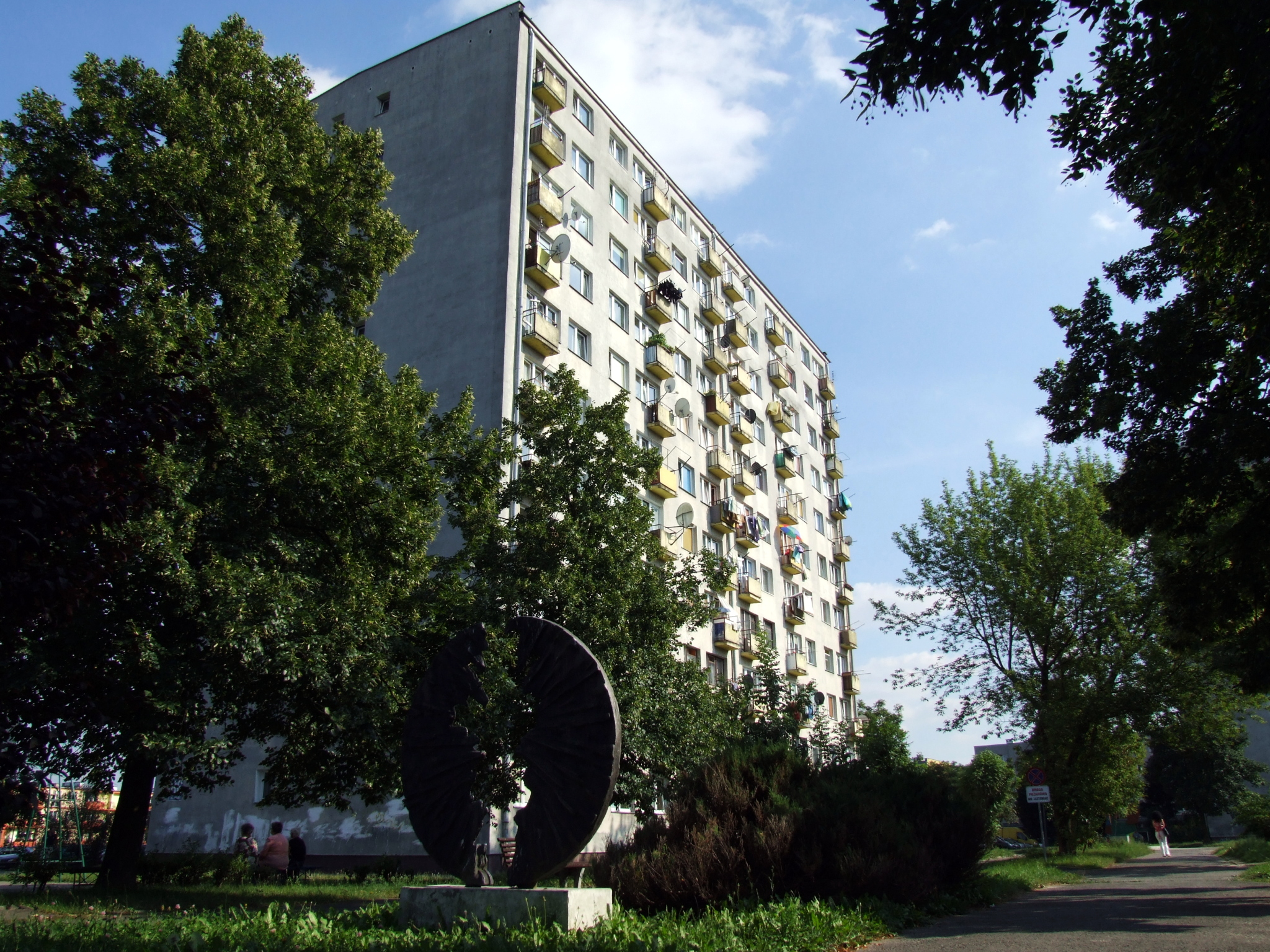 25-lecia PRL district in Ostrowiec Swietokrzyski